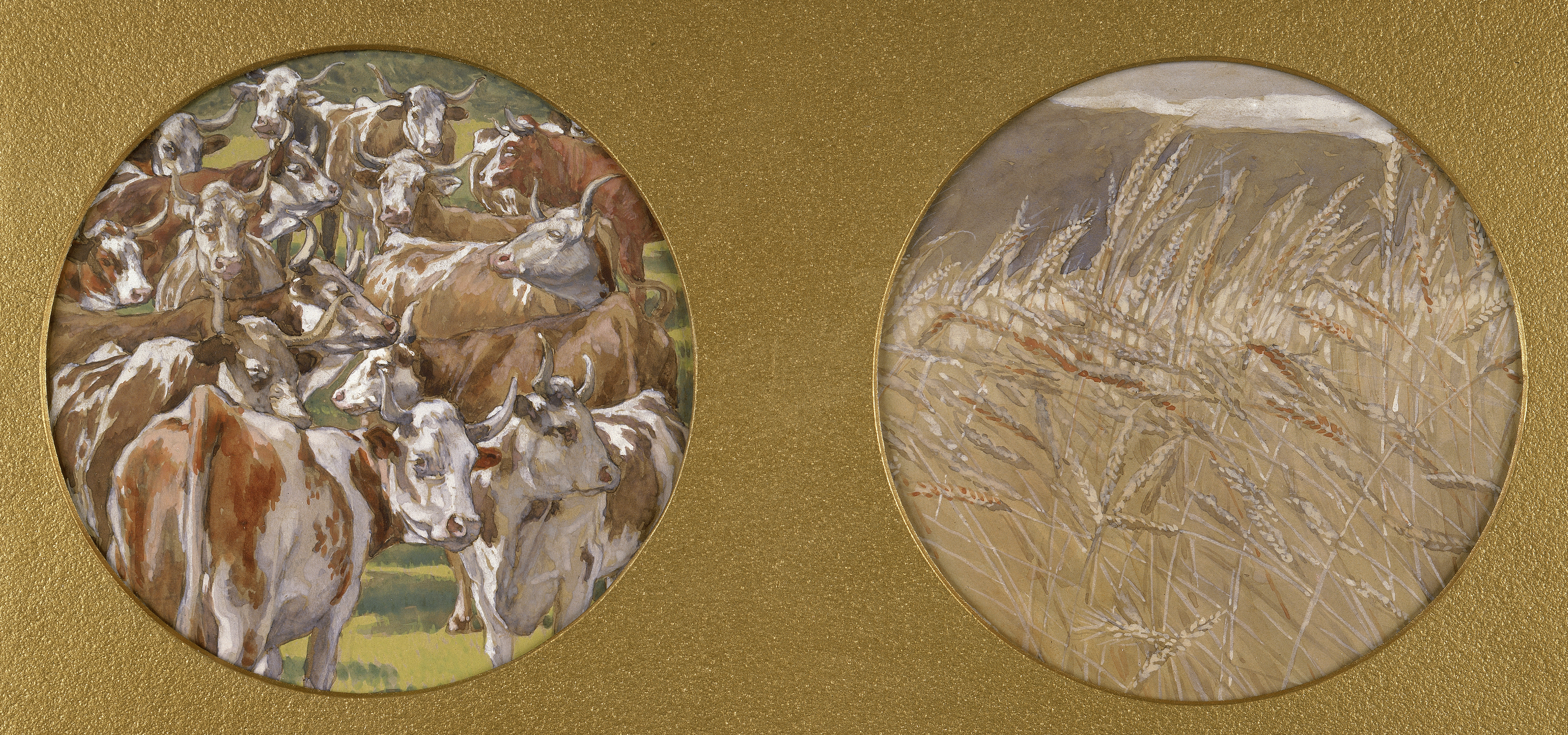 Pharaoh's Dreams, c. 1896-1902, by James Jacques Joseph Tissot (French, 1836-1902), gouache on board, Diameter: 5 1/8 in. (13 cm) each, at the Jewish Museum, New York